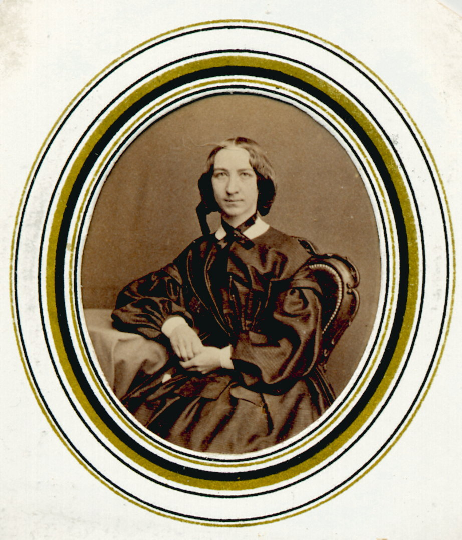 Luise Neumann (1837 - 1934) was a painter, born in Koenigsberg/ Prussia, todays Kaliningrad/ Russia. She was the daughter of the physicist Franz Neumann and painted many scientists of the Albertina-University of Koenigsberg, f.e. his brother Ernst Christian Neumann, hematologist.